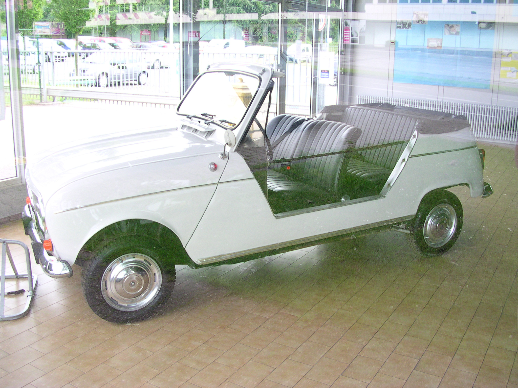 Renault R4 Convertible